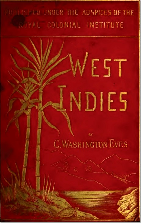 Cover of The West Indies by C. Washington Eves. Sampson Low, Marston, Searle & Rivington, London, 1889.